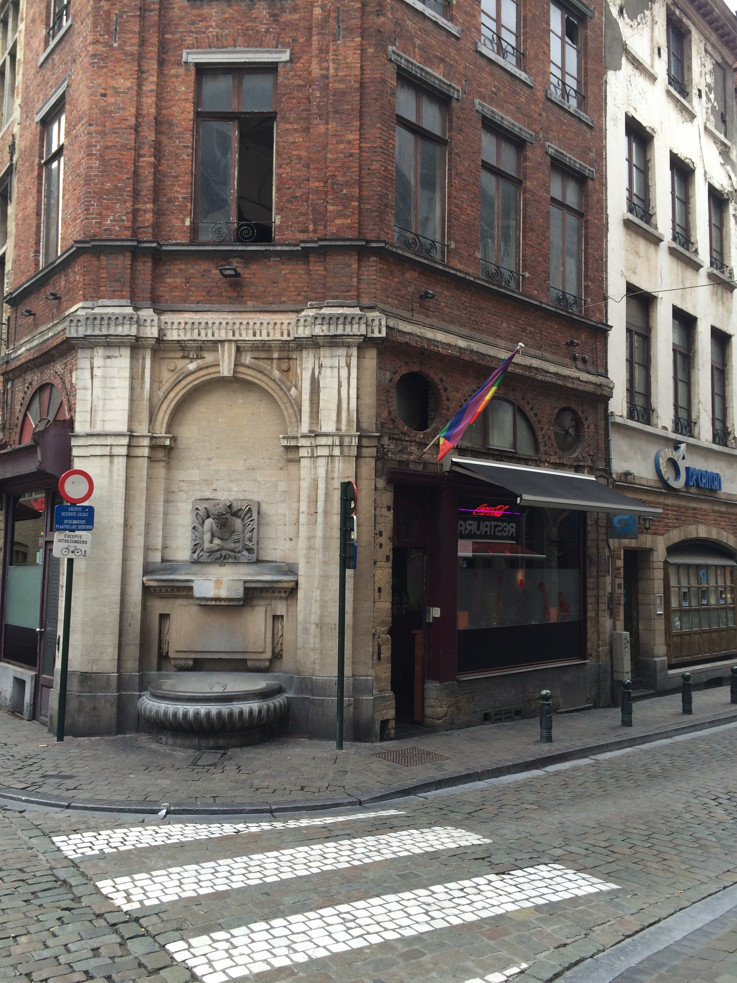 Two gay bars at Steenstraat/Rue des Pierres in Brussels, Belgium: L'Homo Erectus (center) and CanCan (right).